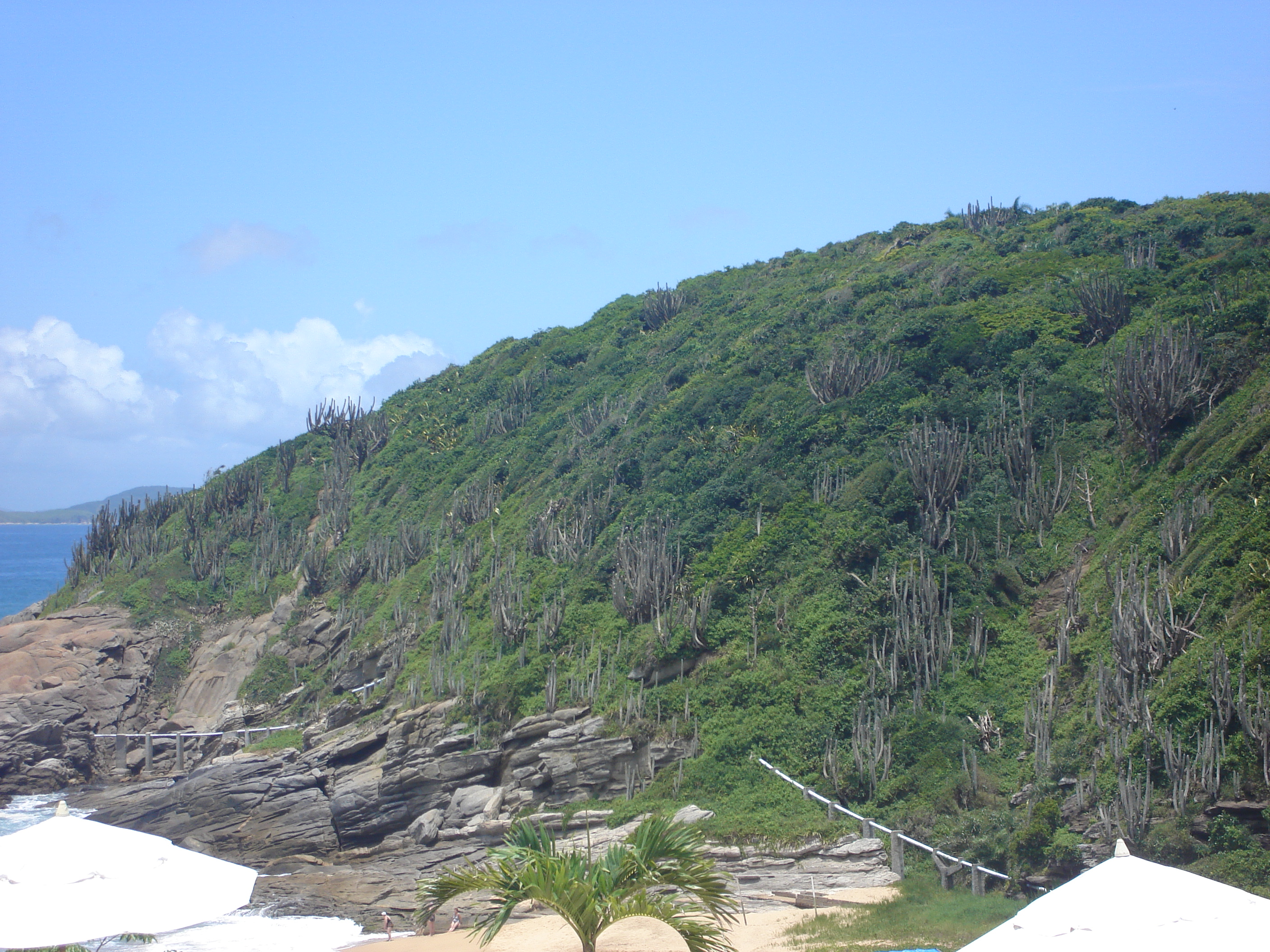 Caravelas Beach, Armação dos Búzios, Rio de Janeiro State, Brasil